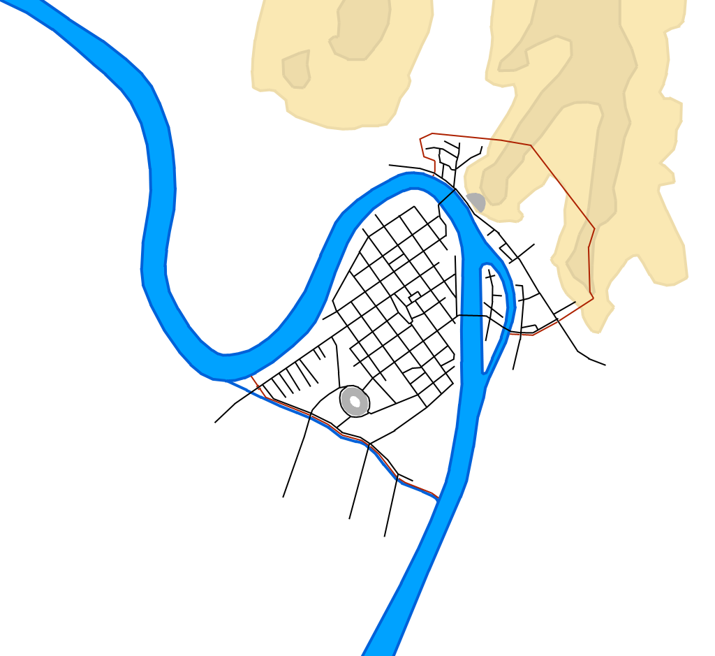 Verona in medieval